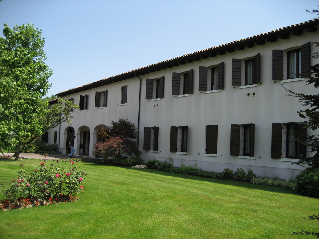 Telsey Telecommunications HeadQuarter